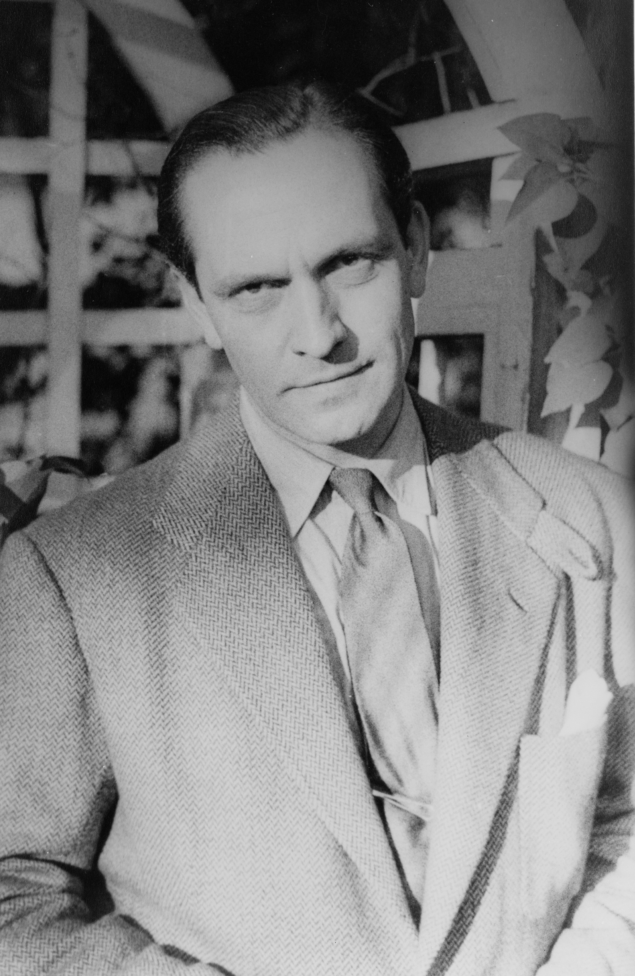 Portrait of Fredric March, in